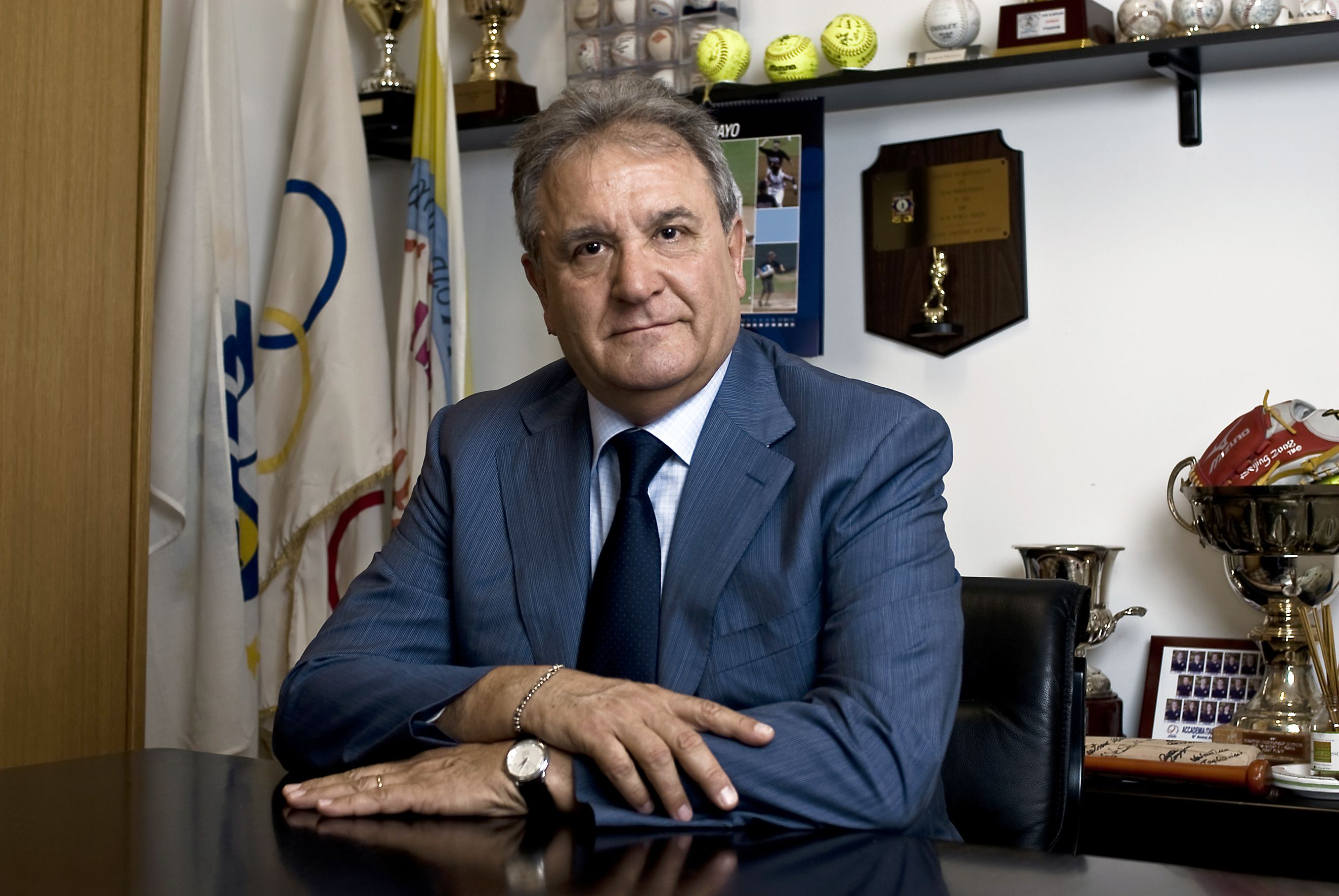 Riccardo FRACCARI in his offices in Rome, Italy